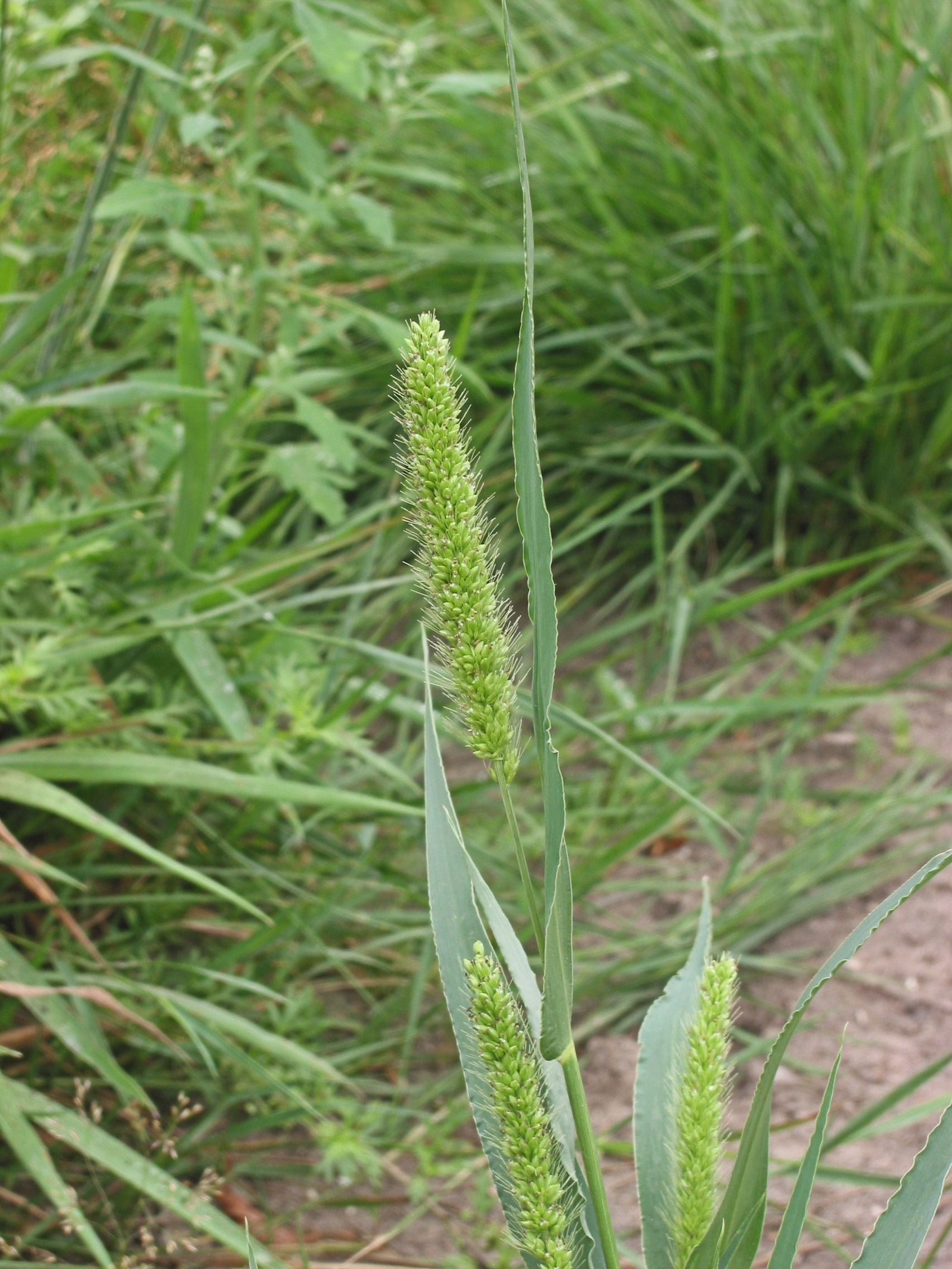 Setaria viridis inflorescense